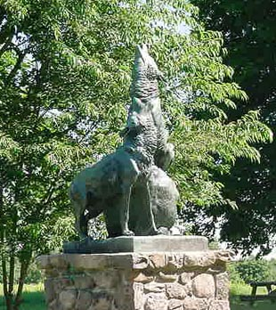 Wolves at huntington state park